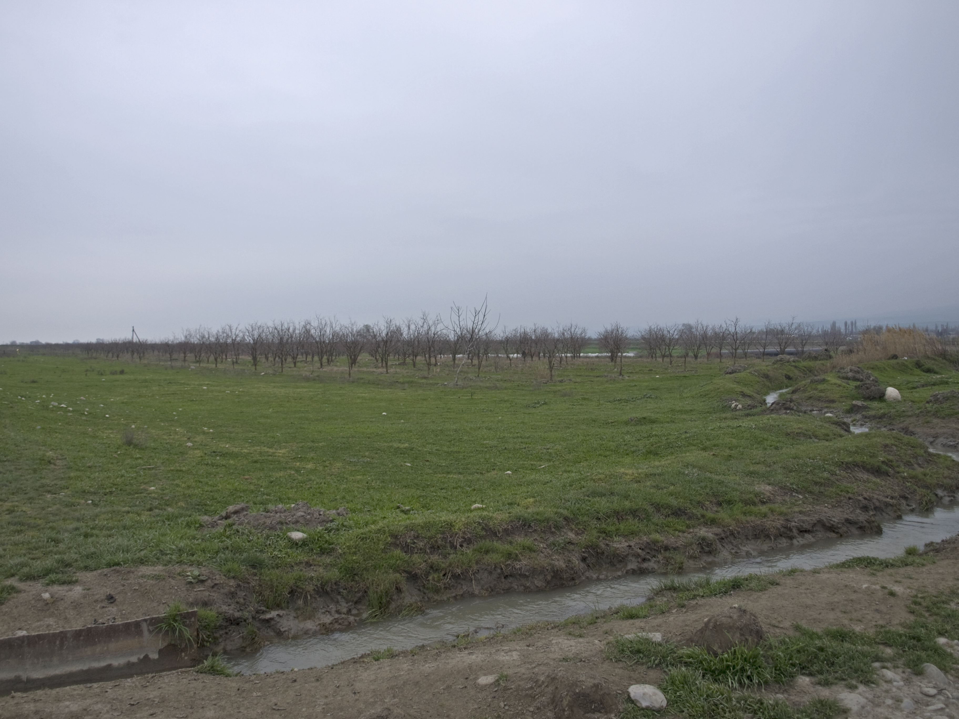 Orcherds in Shabran Rayon, next to R1 north of Kandov